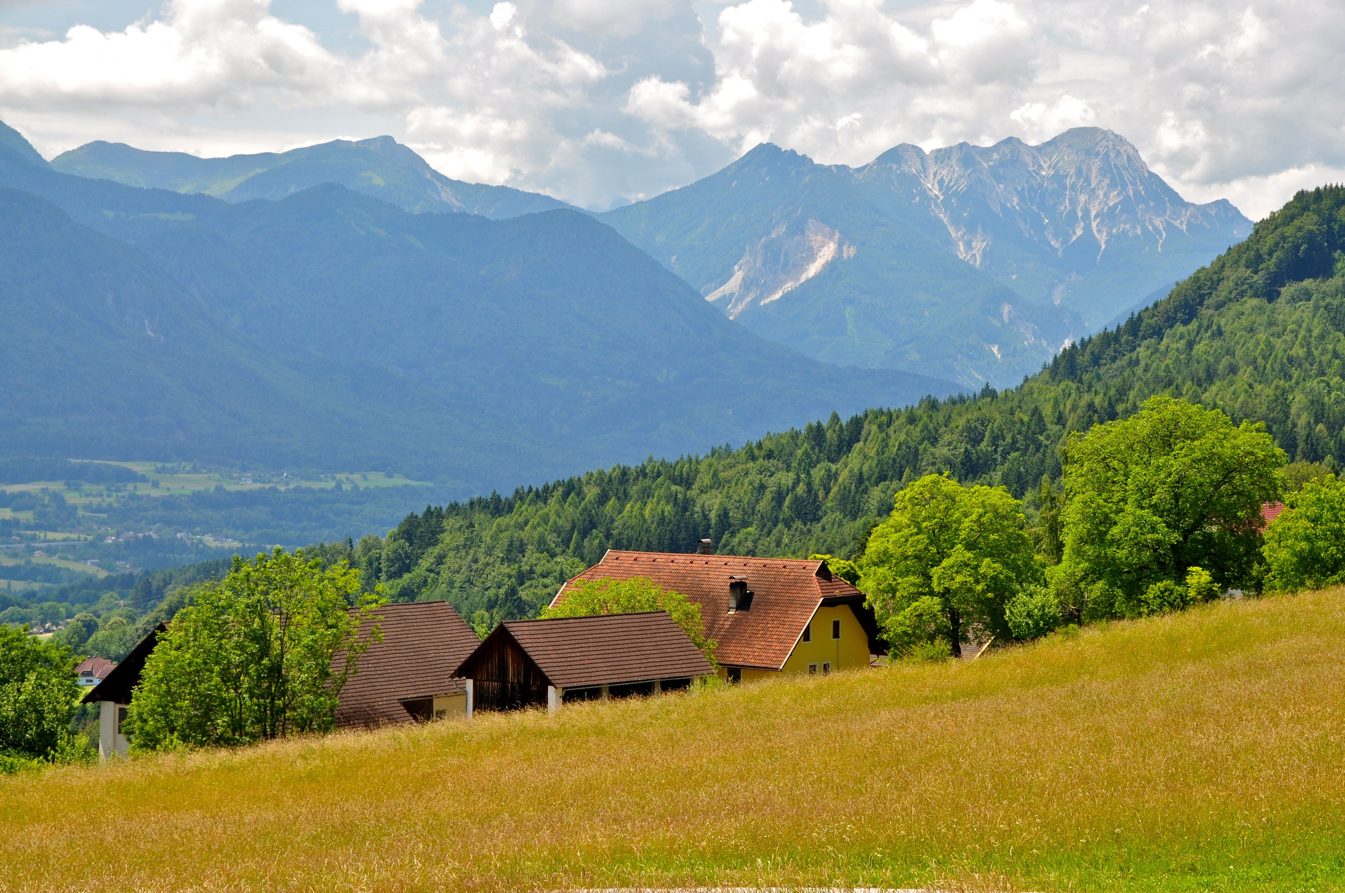 Ogris-mountain at Grosskleinberg in Ludmannsdorf, municipality Ludmannsdorf, district Klagenfurt Land, Carinthia, Austria